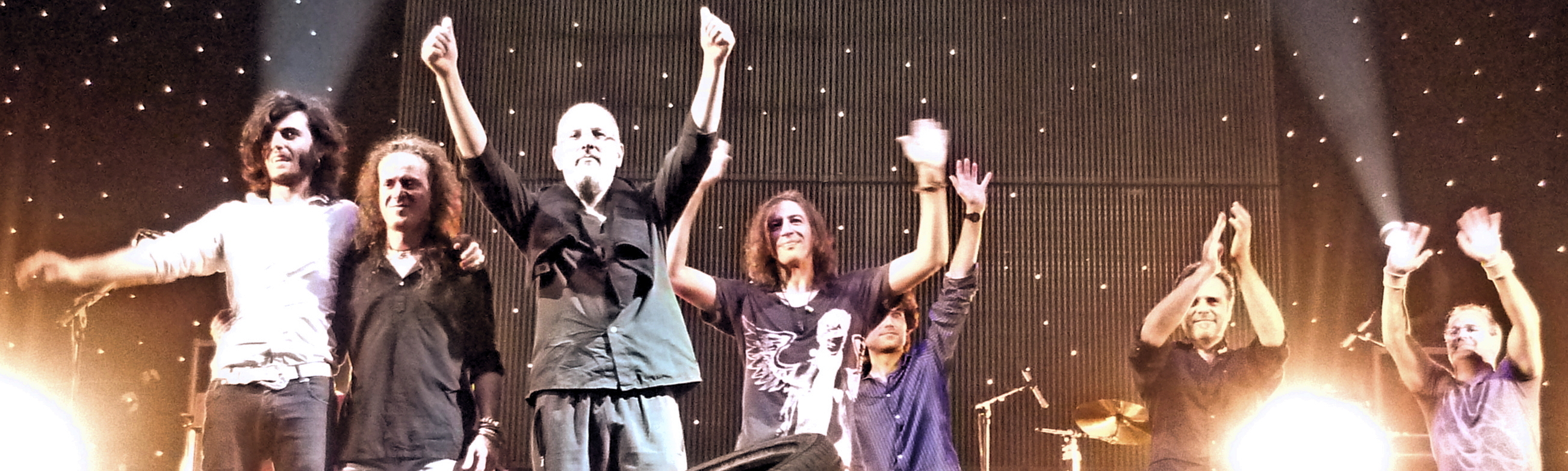 Sopa de Cabra leaving the stage at the end of their final concert in the 2011 anniversary tour. Pavello Fontajau, Girona, 1 October 2011. From left to right: Xarim Aresté, Jaume 'Peck' Soler, Francesc 'Cuco' Lisícic, Gerard Quintana, Eduard Font, Josep Thió, Pep Bosch.